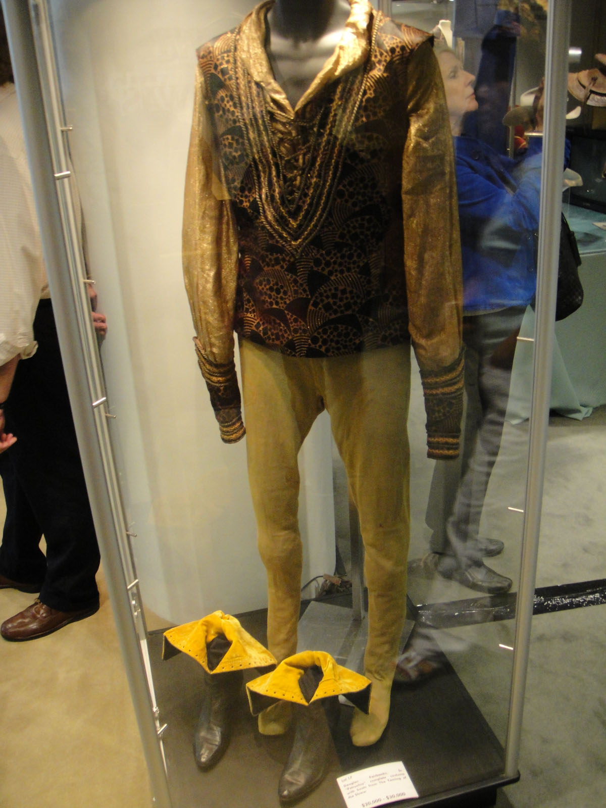 Douglas Fairbanks Sr "Petruchio" complete costume with boots from "The Taming of the Shrew" at the Debbie Reynolds Auction Breaks Up Historic Hollywood Collection (The Paley Center for Media in Beverly Hills, Los Angeles, CA, USA).